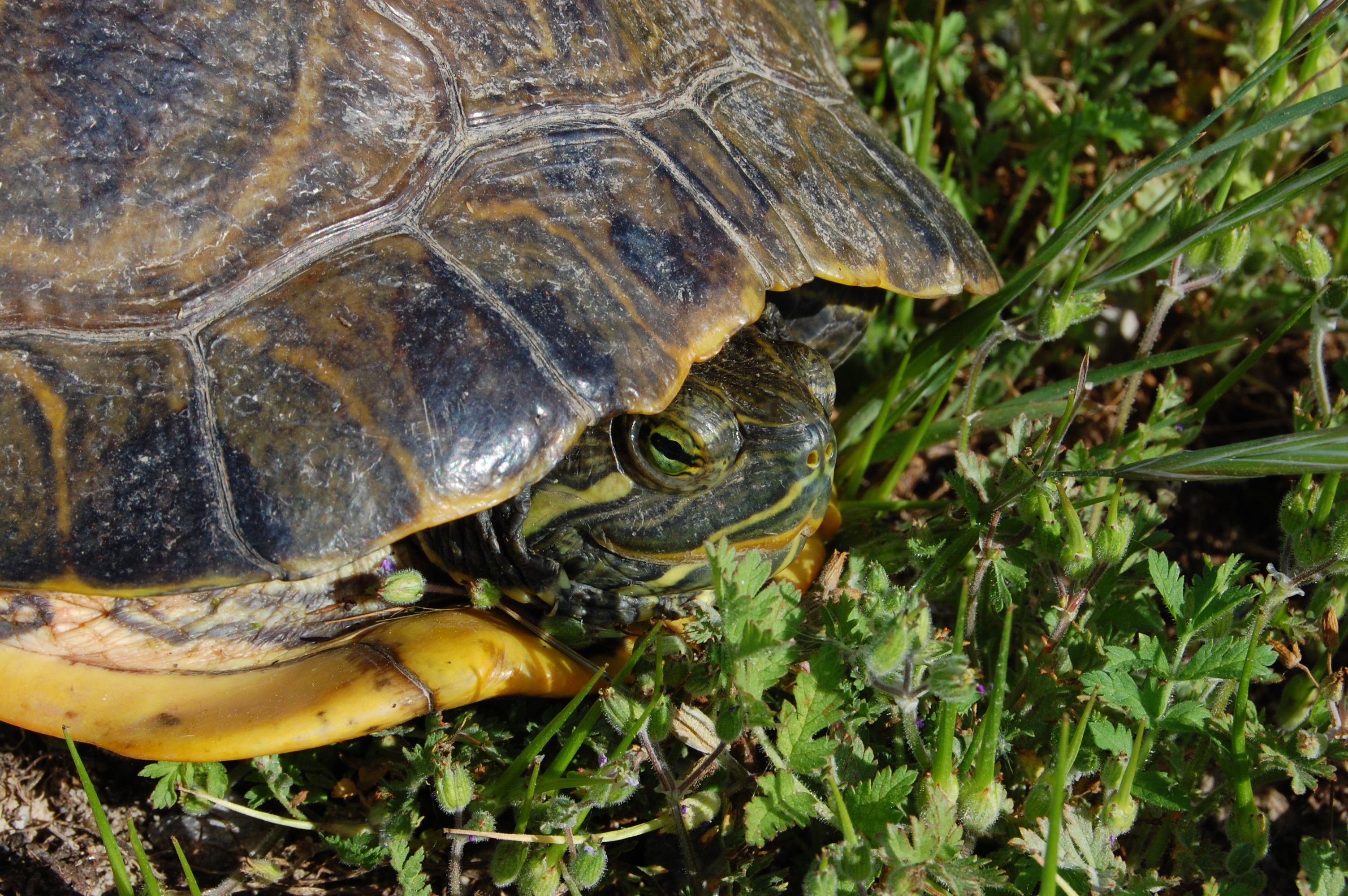 Red-eared Slider